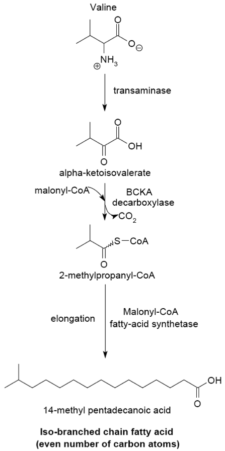 Synthesis of branched chain fatty acids using valine as a primer